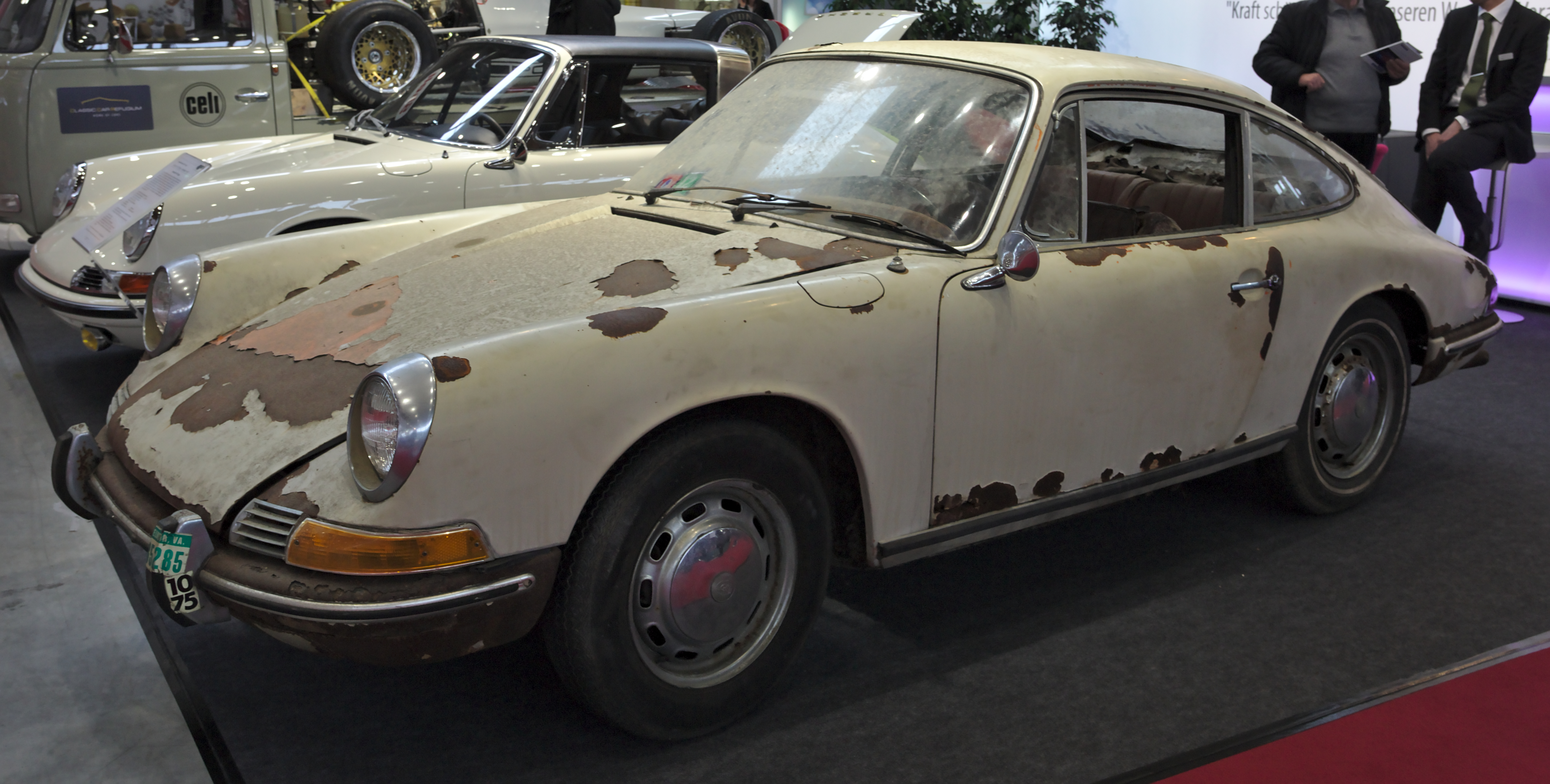 Porsche 911 at Retro Classics 2018